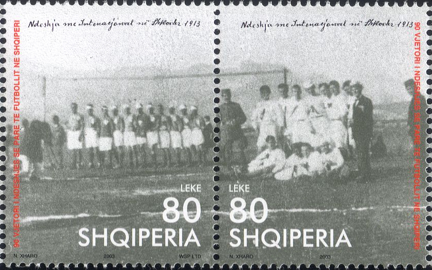 90th Anniv. of 1st International Football Match in Albania: Austro-Hungarian Imperial Navy vs. KF Vllaznia Shkodër